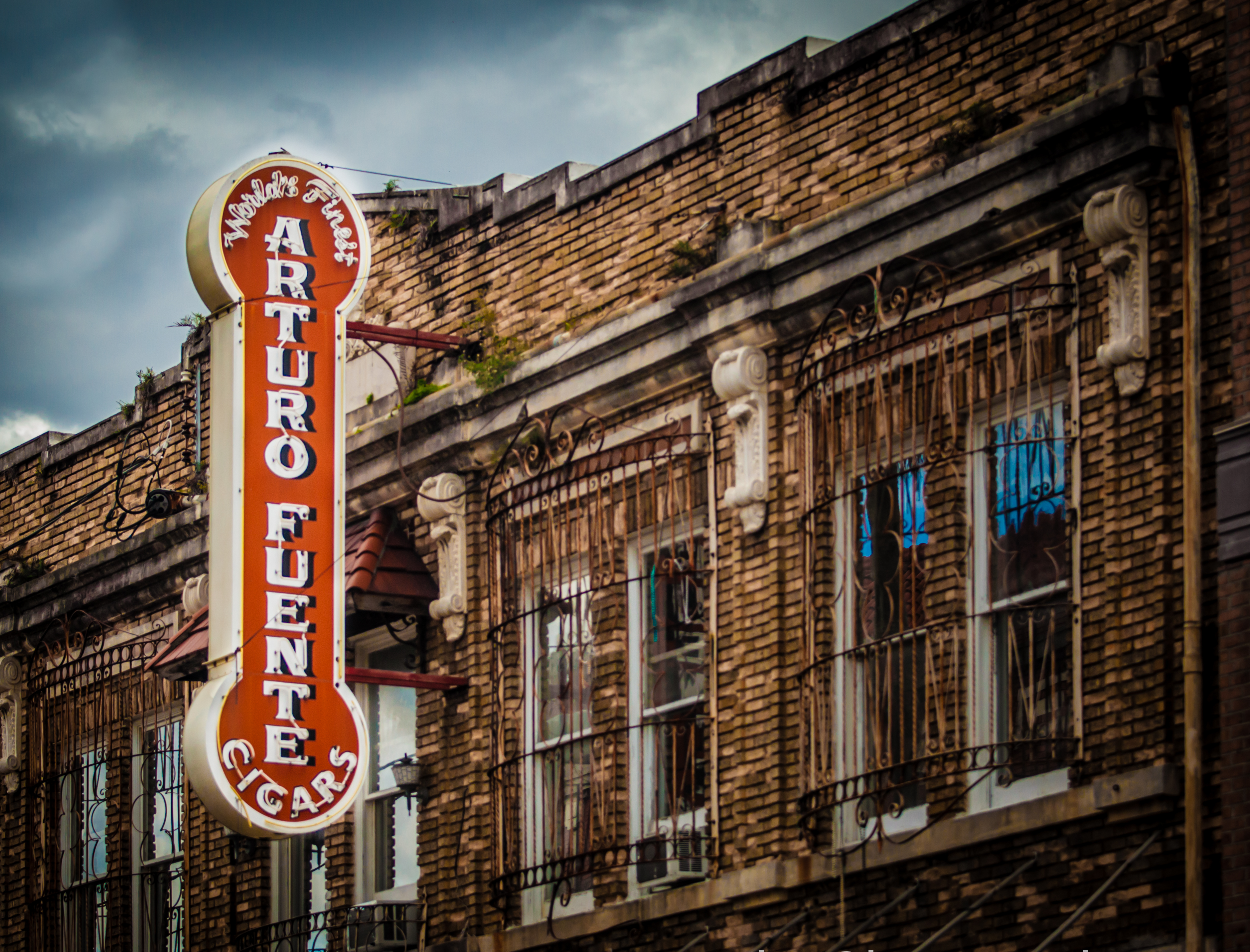 Arturo Fuente cigars, Ybor City